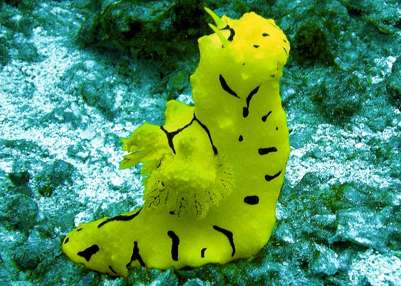 Notodoris minor Eliot, 1904 on the Ribbon Reefs off Cooktown